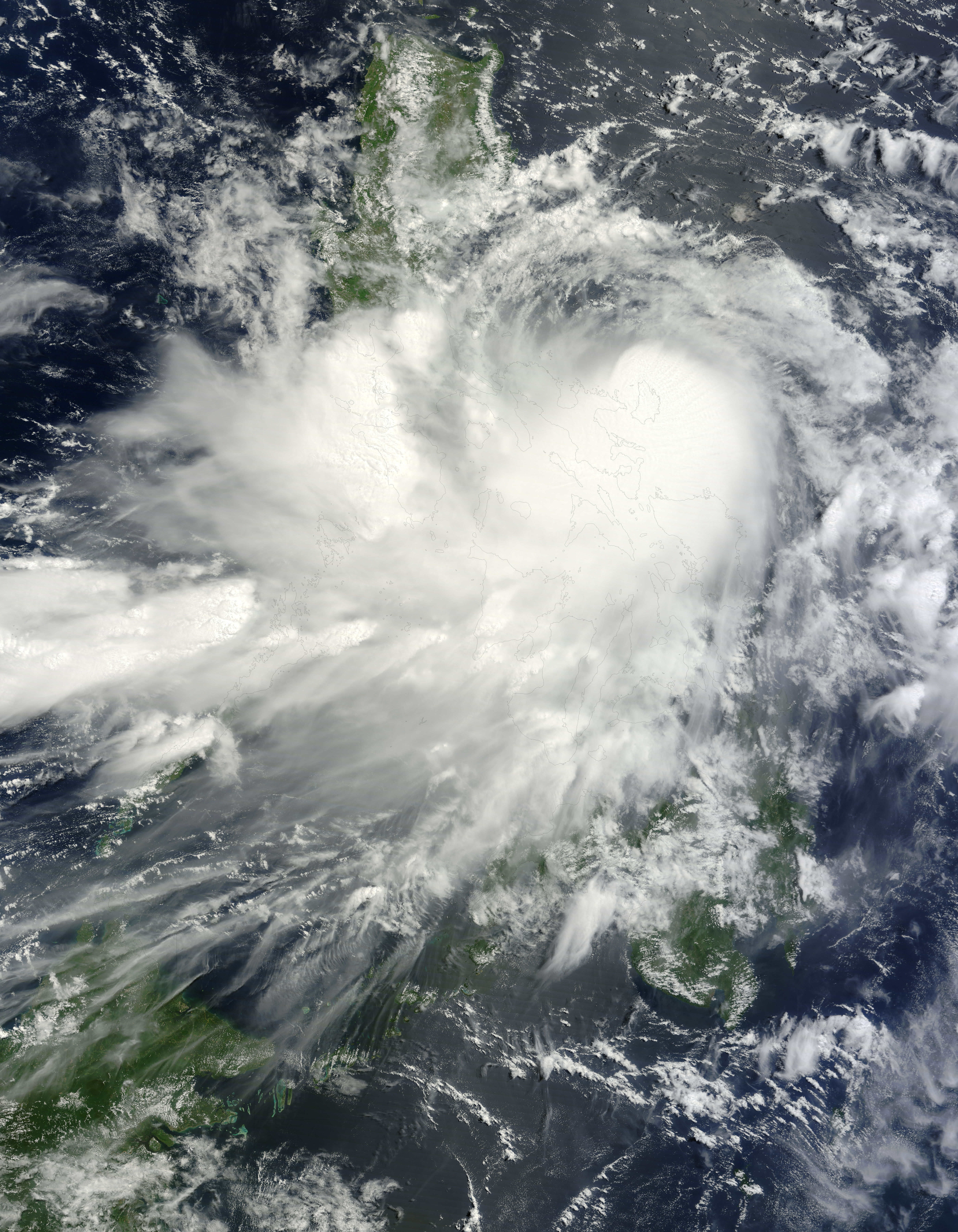 Tropical Storm Nock-ten (10W) over the Philippines